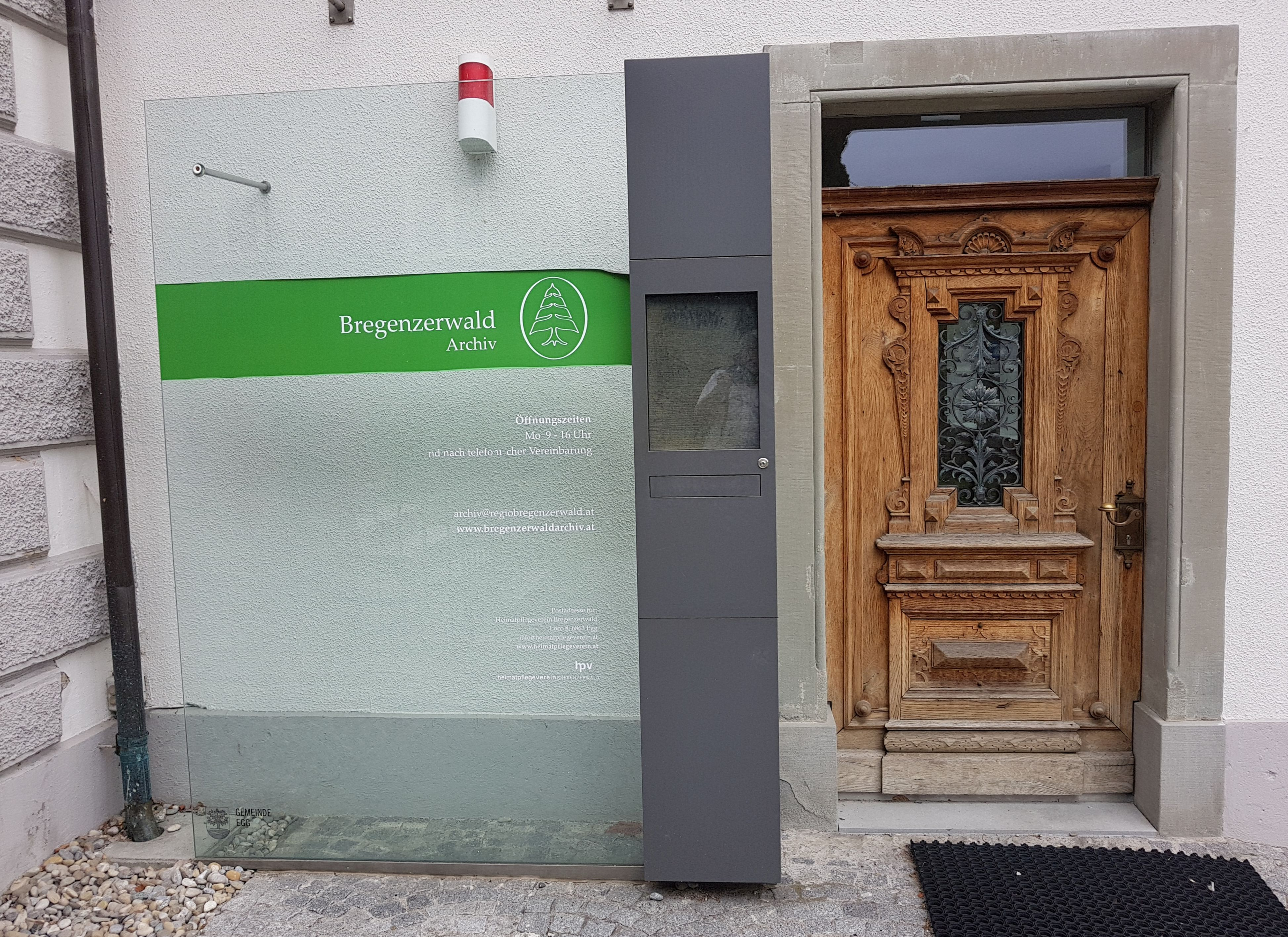 The Bregenzerwald Archive is located in the municipality of Egg in Vorarlberg and is responsible for the 24 municipalities of the Bregenzerwald region (Bregenz Forest).